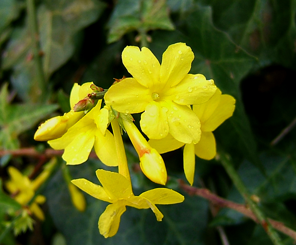 Winter Jasmine